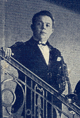 Henry Busse (1894-1955), German-born United States trumpet player and bandleader